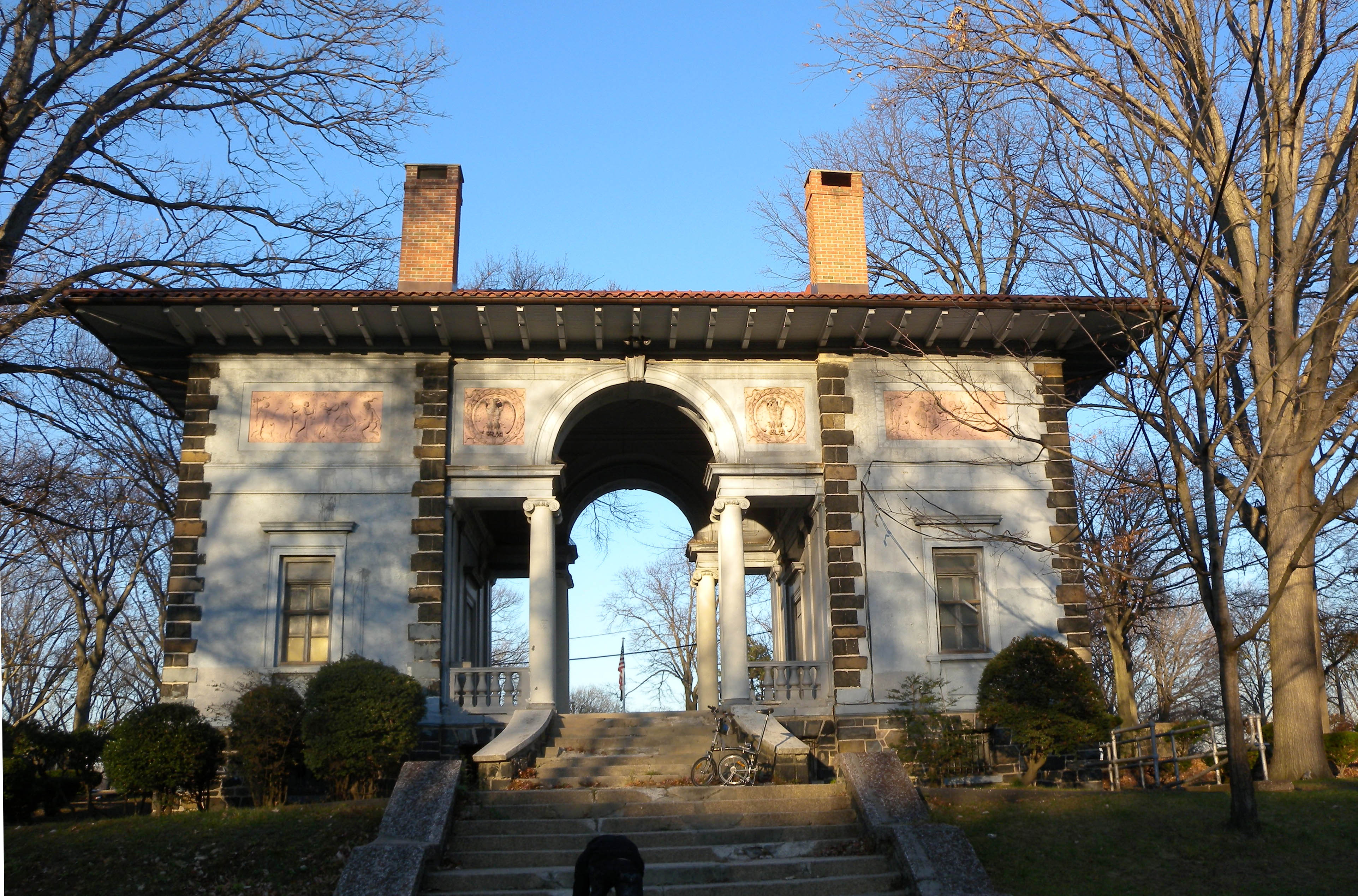 Looking north at entrance arch of North Hudson Park on a sunny afternoon.